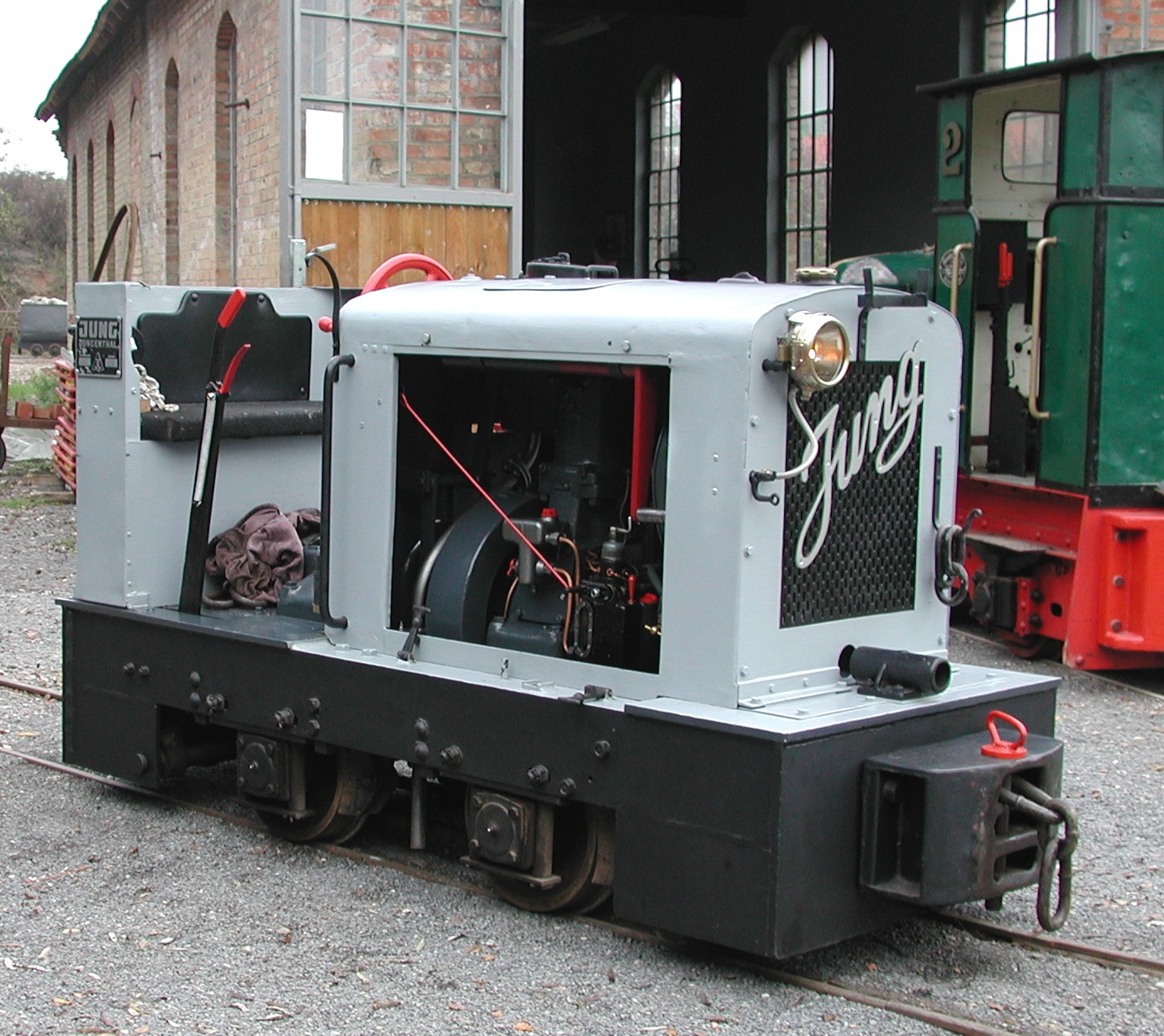 600mm gauge German Feldbahn locomotive by Arnold Jung in Jungenthal at Kirchen a.d. Sieg. Deutz locomotive number 13477 is in the background.